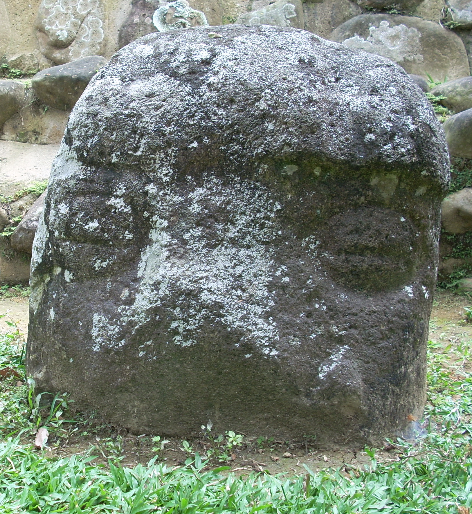 Monument 65 at Takalik Abaj.